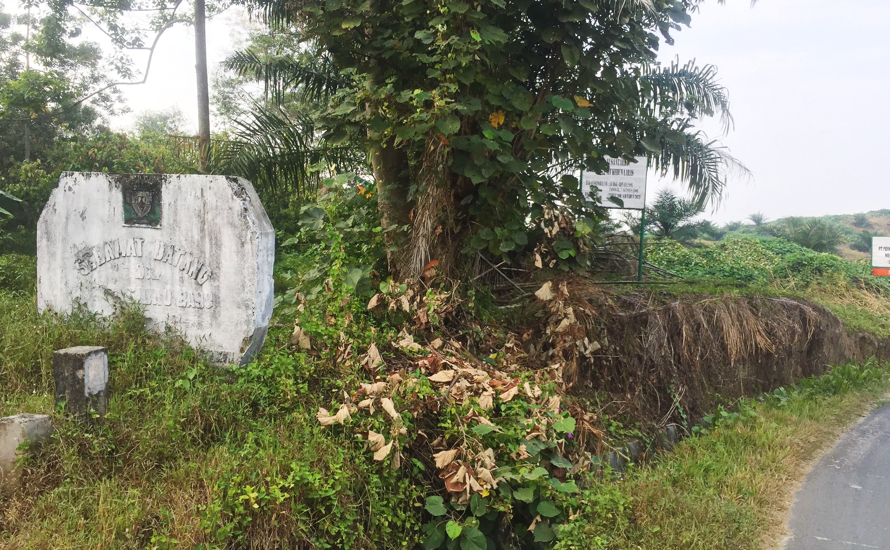 welcome gate to Silau Bayu, Gunung Maligas, Simalungun